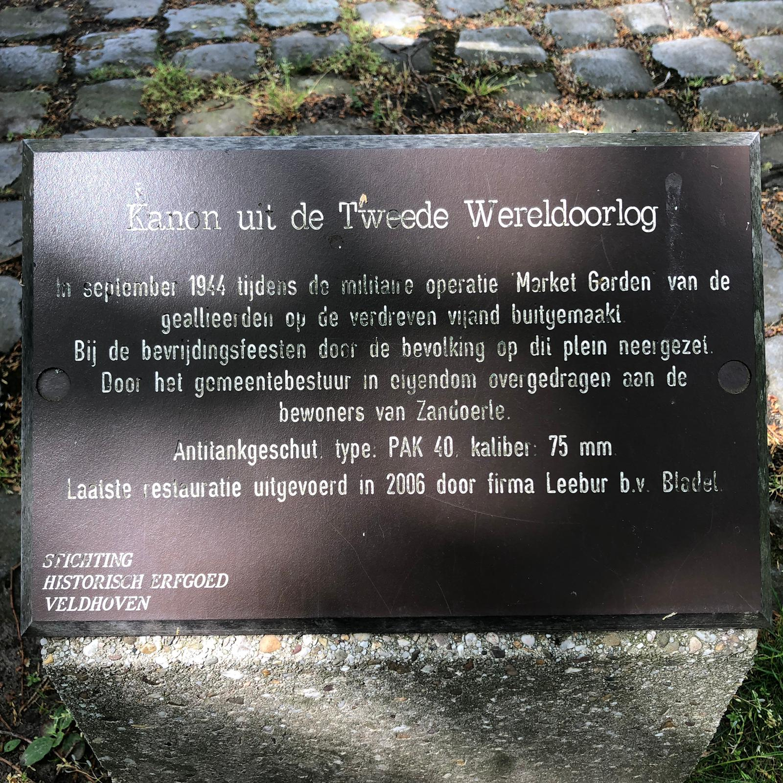 De plaquette van het kanon van Zandoerle na de restauratie in 2006.